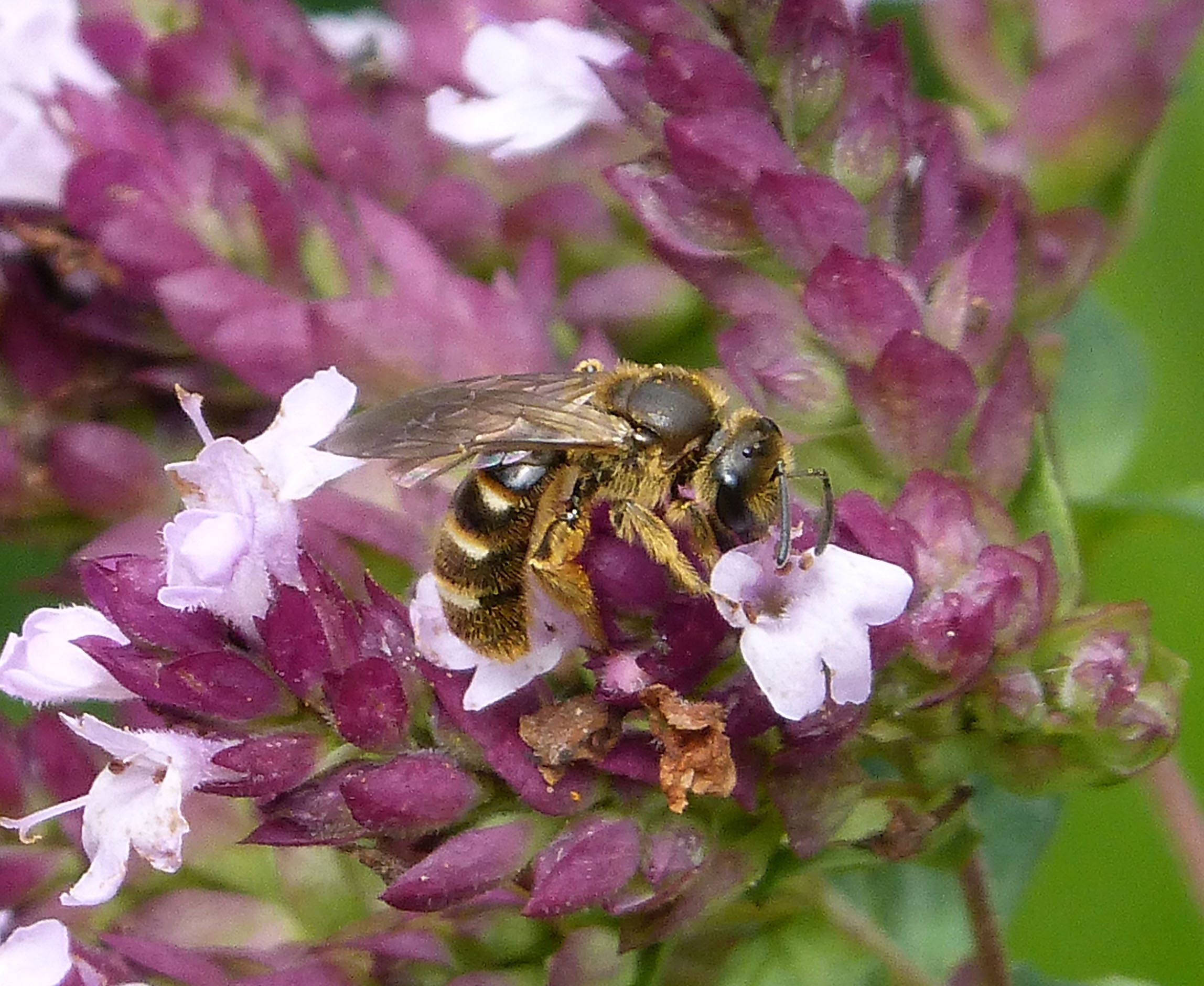 SO 7347 Cradley, Malvern, Worcs